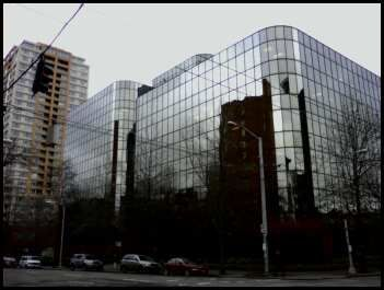 The 4th and Vine Building in Seattle's Belltown Neighborhood.